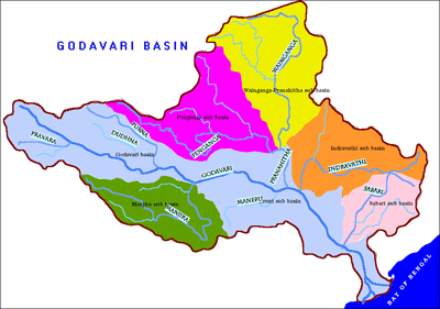 ref